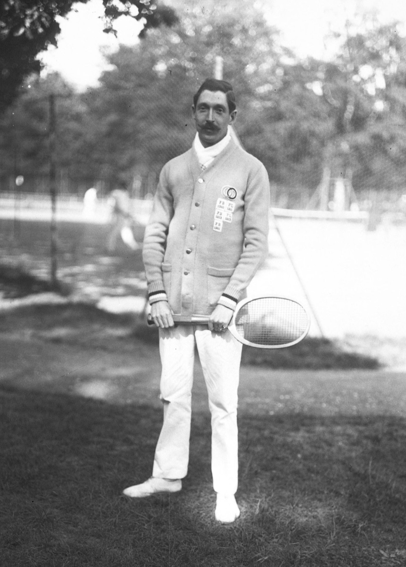 Meny France - Belgium at the Croix Catelan in France bois de Boulogne